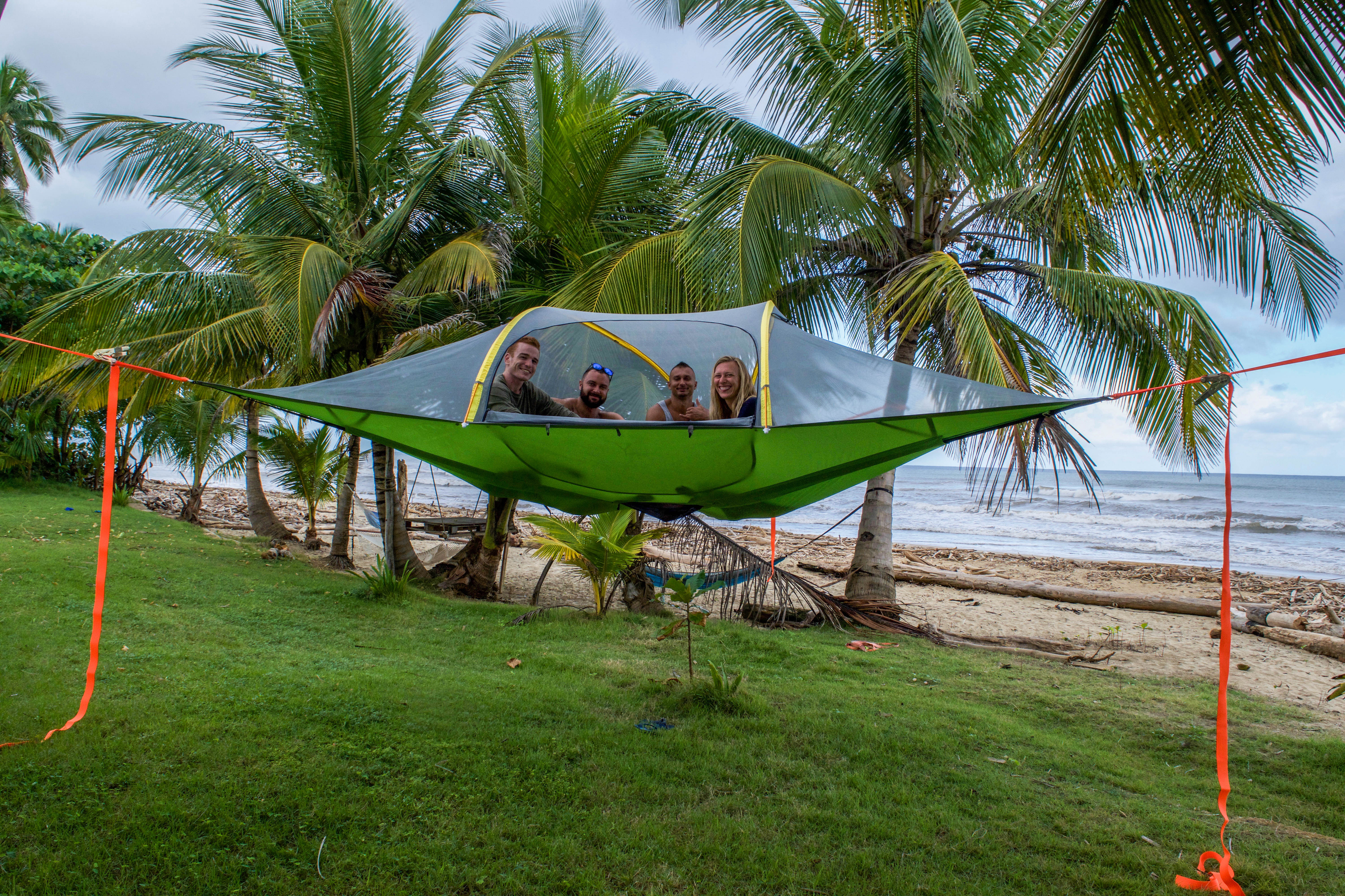 4 People in a Tentsile Stingray Tree Tent by Hammock Town